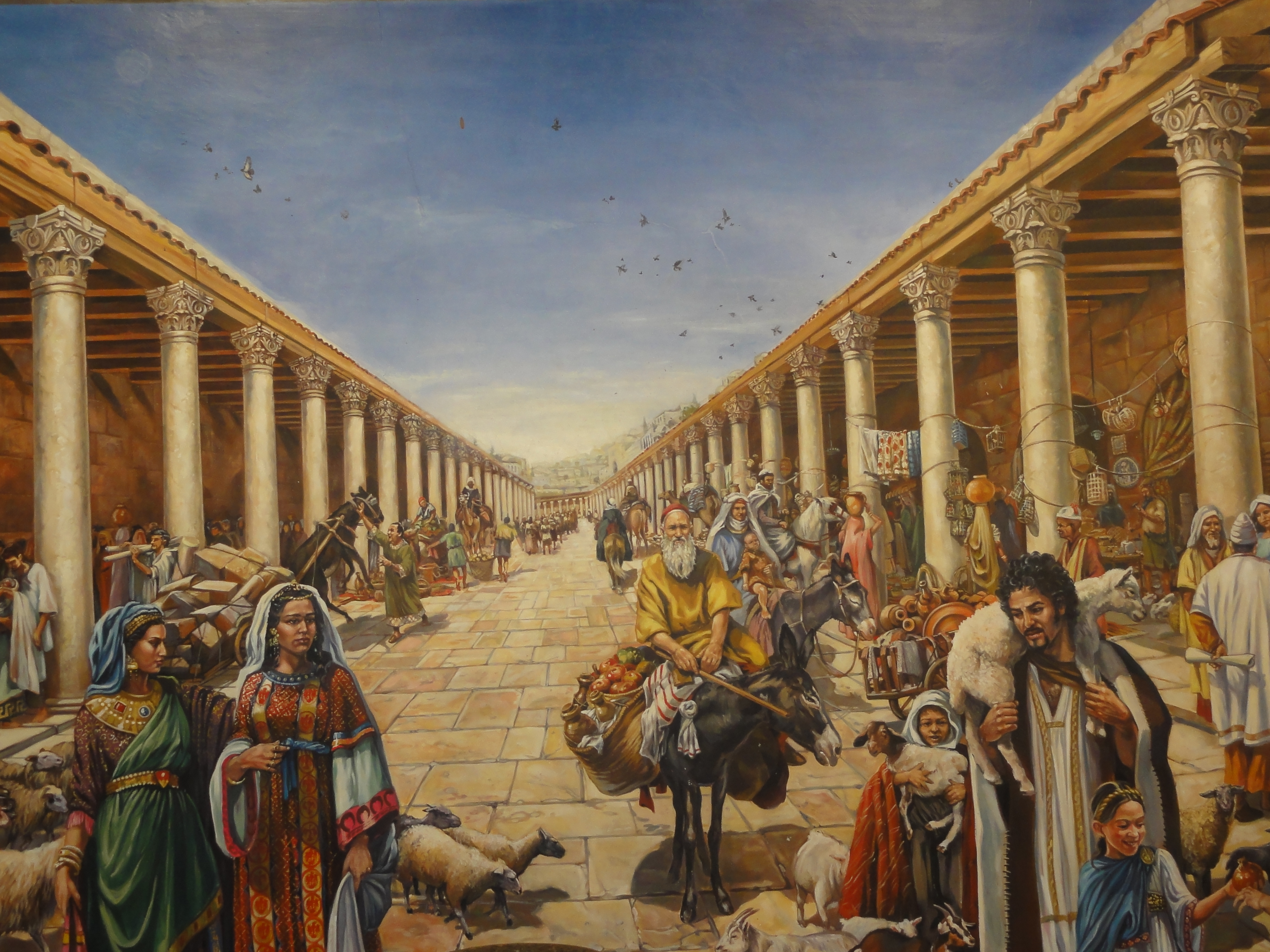 Jerusalem, Jewish Quarter, Cardo Maximus during Roman reign (117-138 A.D., Jerusalem was called Aelia Capitolina in these days) the remains are now located more than 4 metres sub-terrain; artist's impression).